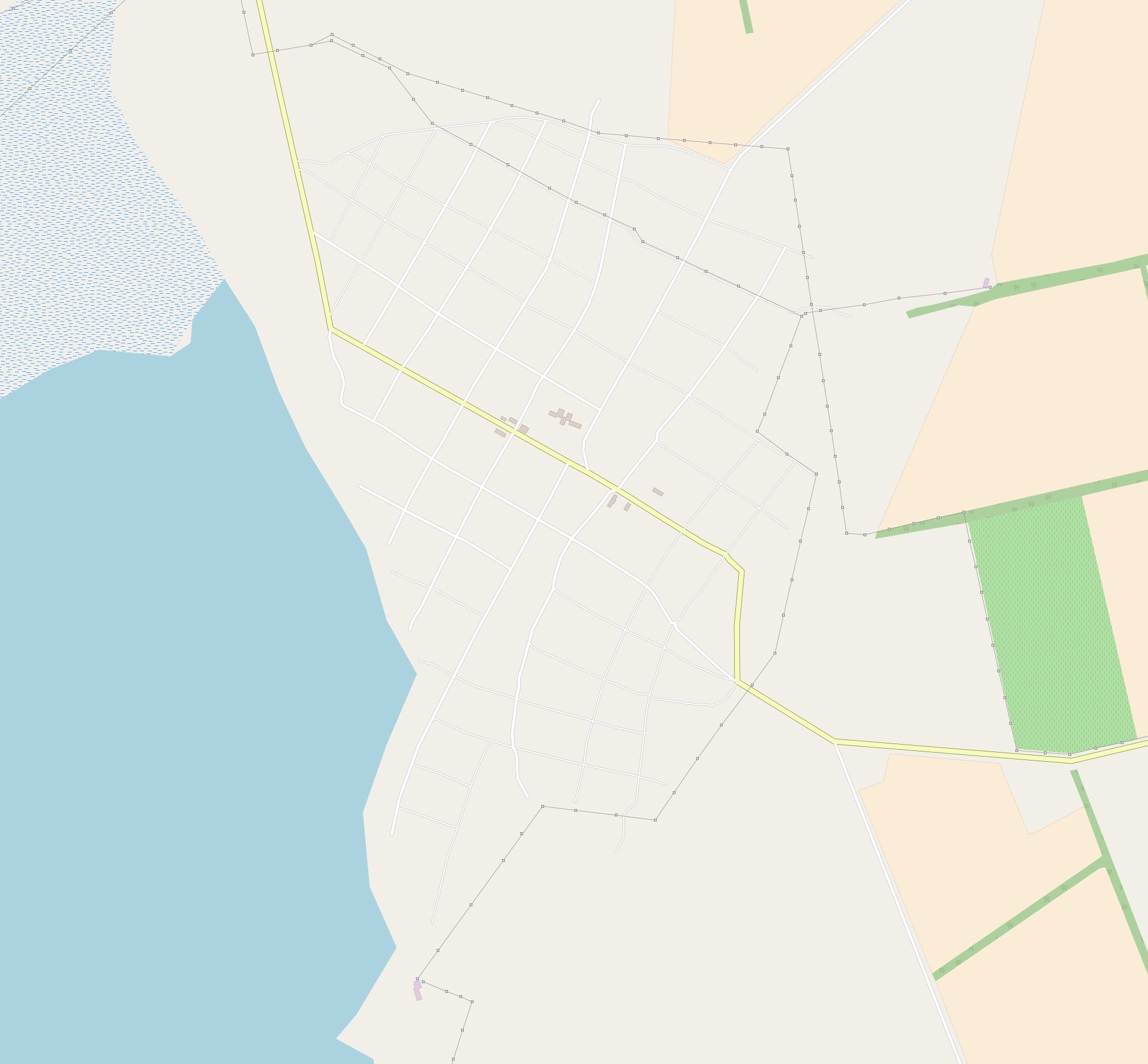 OpenStreetMap - Map of Suvorove